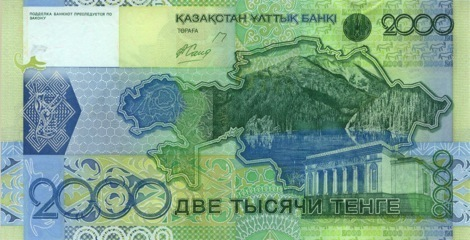 2000 Tenge note with misspelling (2006 printing)